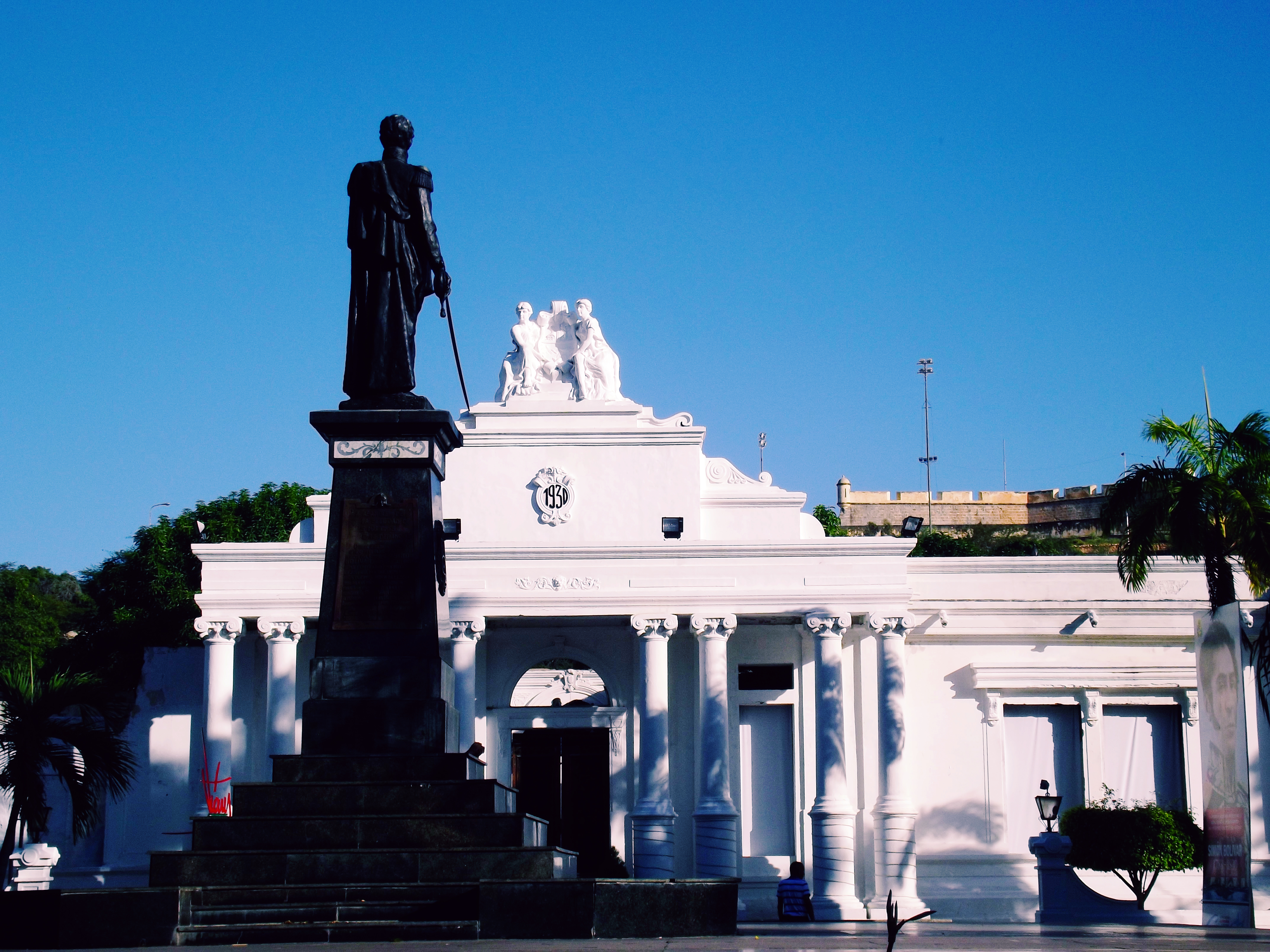 Cumaná, Venezuela